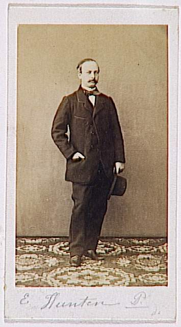 Photo by Overbeck, Johann Friedrich. Emil Hünten